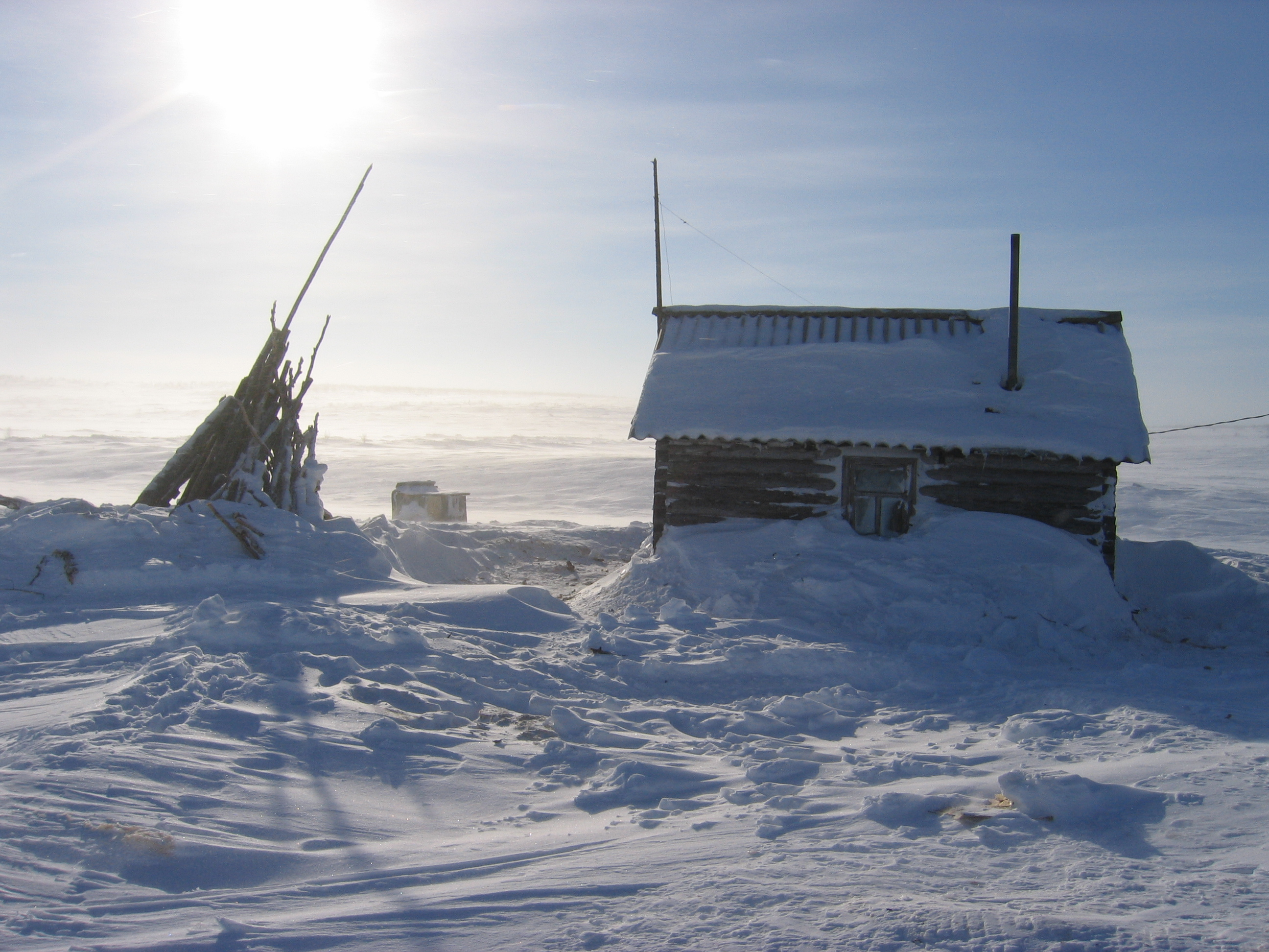 Reindeer herders' lodge in the tundra